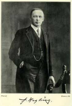 Portrait of baron Alphonse Alphonsovich Heyking (1860—1930)